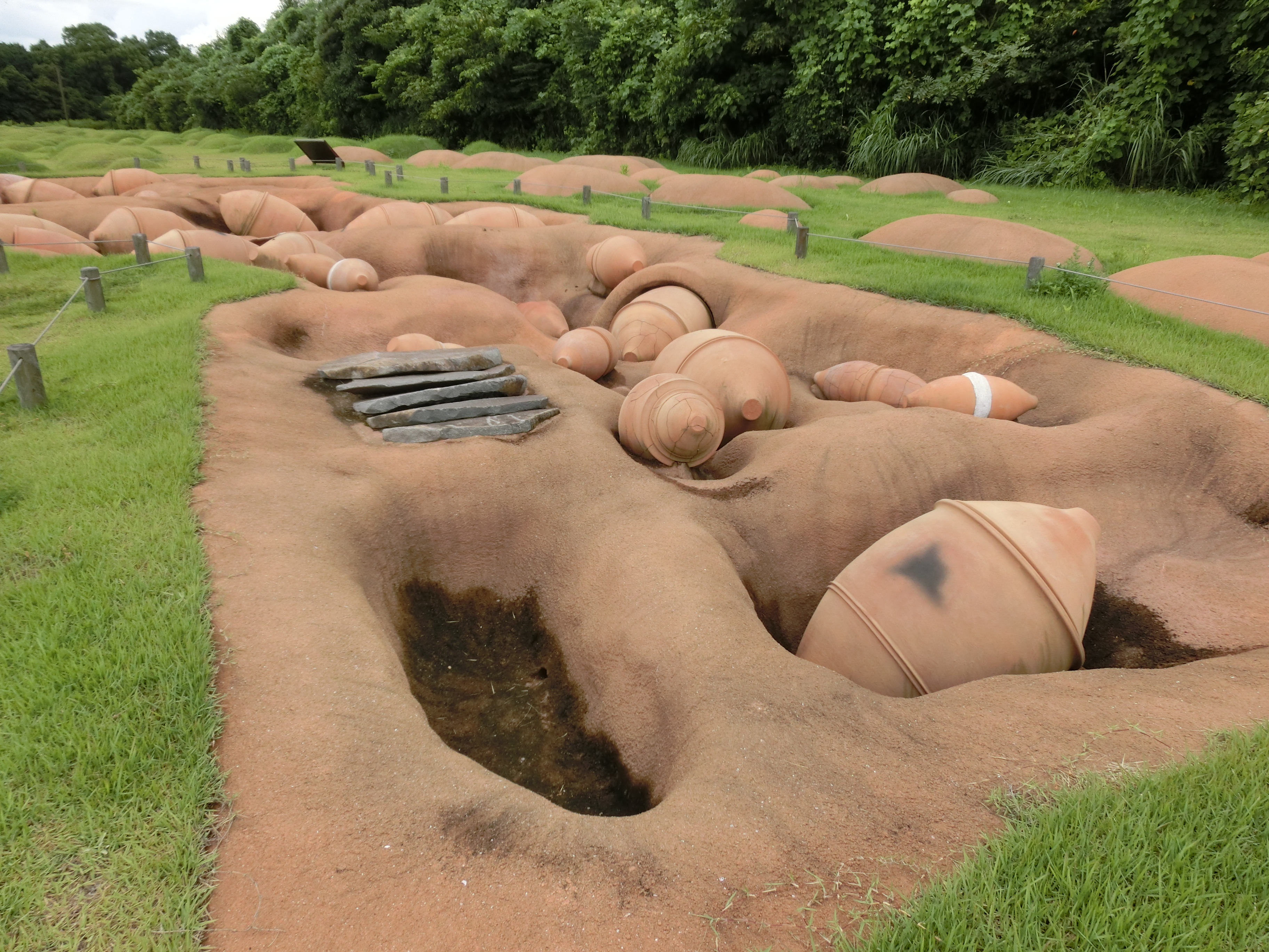 Burial Jar Rows Resting Place (Yoshinogari Site)